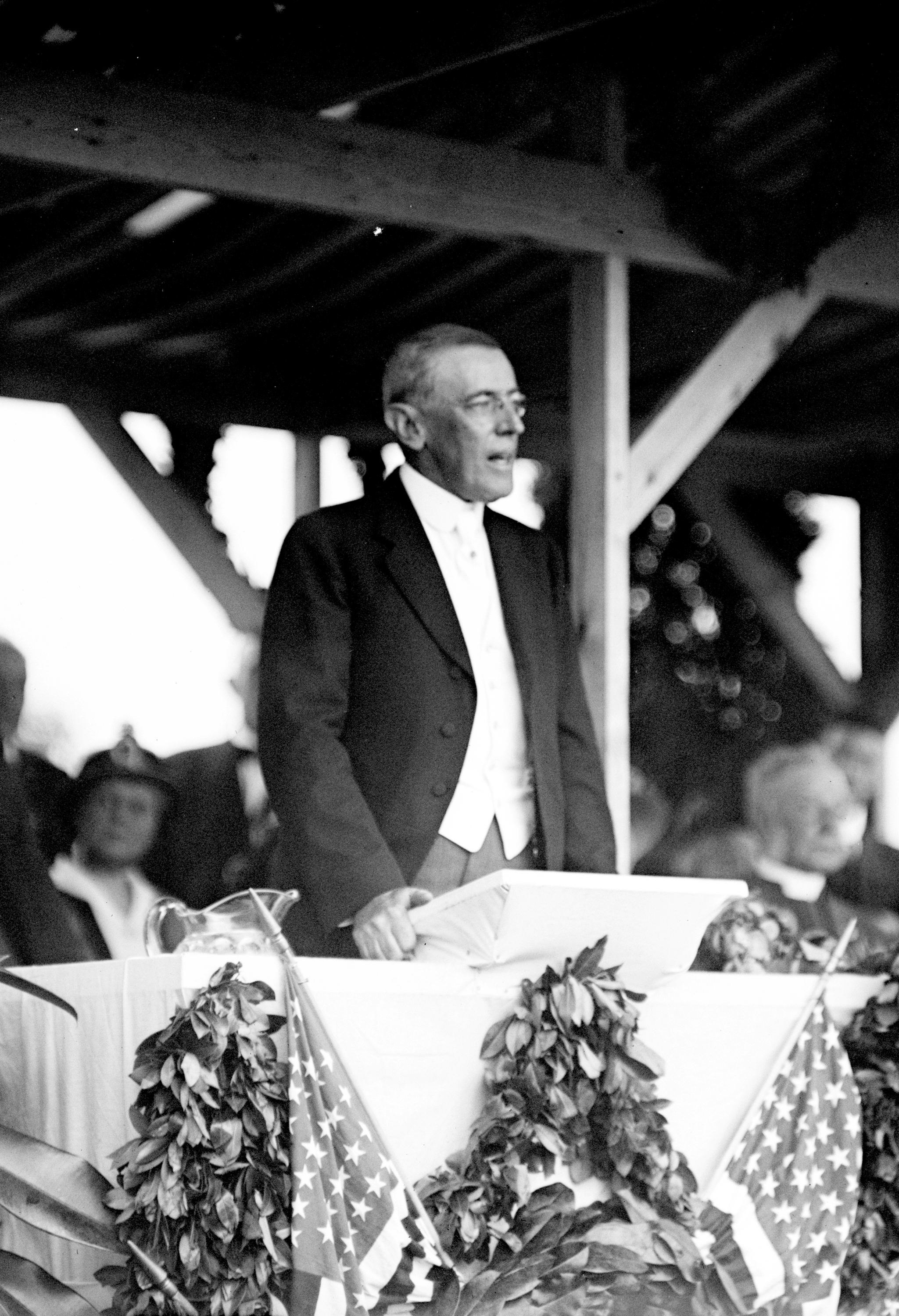 President Woodrow Wilson speaks at the dedication of the Confederation Memorial in Arlington National Cemetery in Arlington County, Virginia, in the United States. Image was taken in 1914.